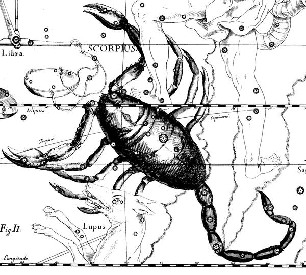 The Scorpius constellation from Uranographia by Johannes Hevelius. The view is mirrored following the tradition of celestial globes, showing the celestial sphere in a view from "ouside"